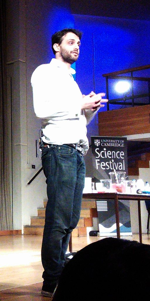 Steve Mould at the 2015 Cambridge Science Festival.